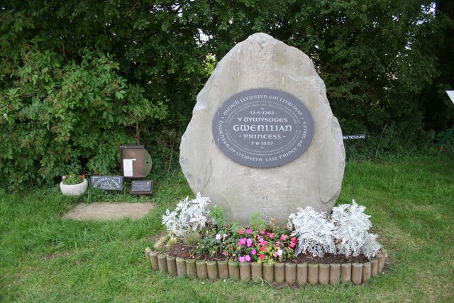 The last true Princess of Wales, near to Pointon, Lincolnshire, Great Britain. Commemorative plaque of Welsh slate to Gwenllian of Wales, daughter of Llywelyn ap Gruffydd, the last true Prince of Wales (known to the Welsh to this day as Ein Llyw Olaf - Our Last Ruler), and grand-daughter of Simon de Montfort. She was born at Garth Celyn, Aber, near Bangor in Wales in June 1282 and captured as a baby by King Edward I after the defeat and death of her father in 1283. She was obviously a threat to King Edward's power in Wales but he couldn't bring himself to have her killed. In order to ensure she remained childless, she spent the rest of her life in enforced imprisonment in Sempringham Priory where she remained for 54 years until her death in 1337. The monument was erected in 1995.